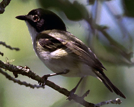 A Black-capped Vireo, Vireo atricapillus, on the Edwards Plateau in Texas